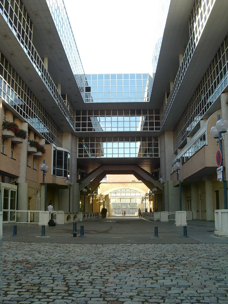 Arch of the Ens de Lyon.